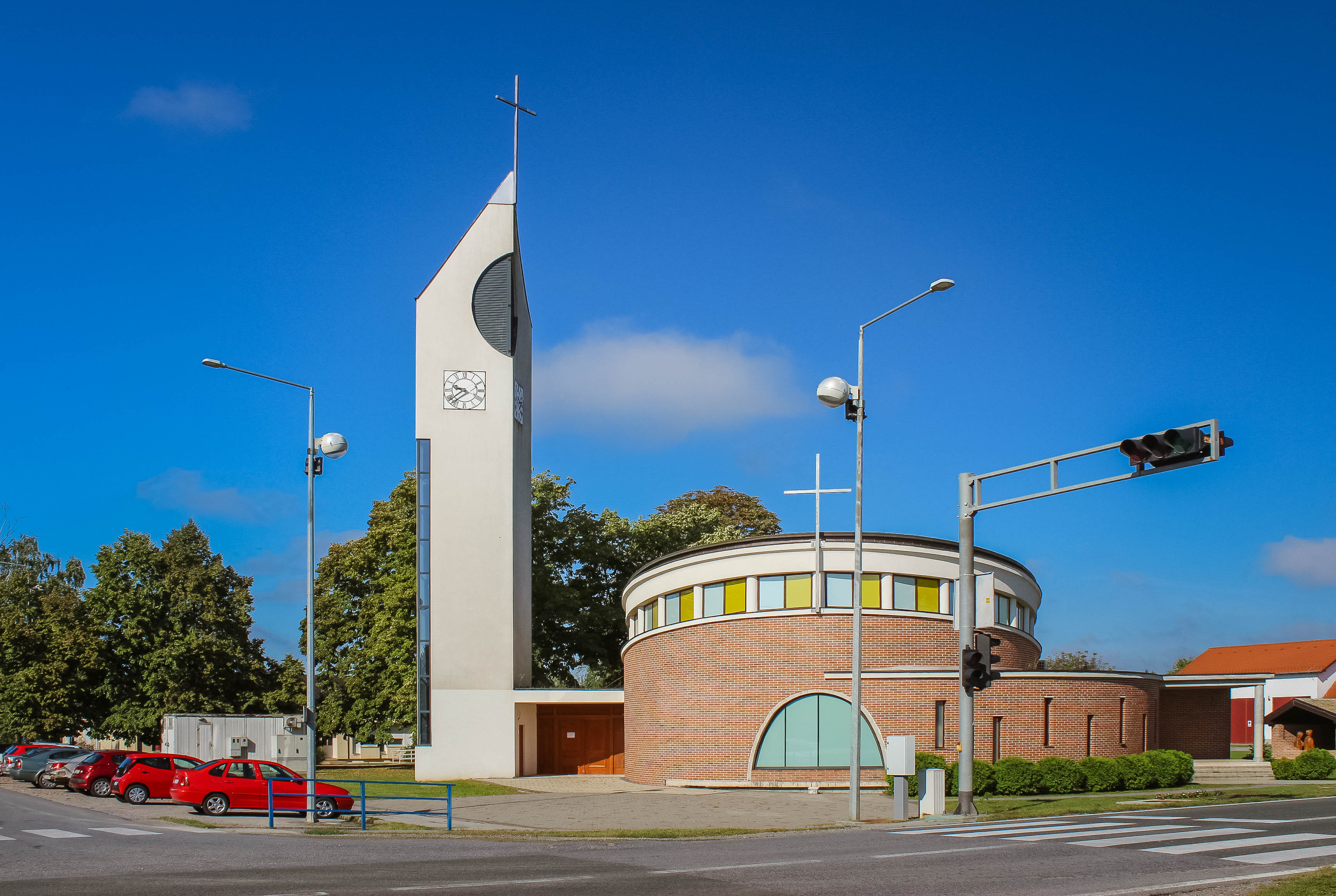 Church in Ernestinovo